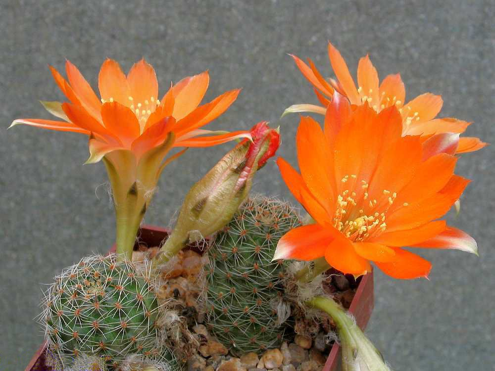 Rebutia friedrichiana Rausch f. SE205 - cultivated plant (seed marked SE205) from own collection.